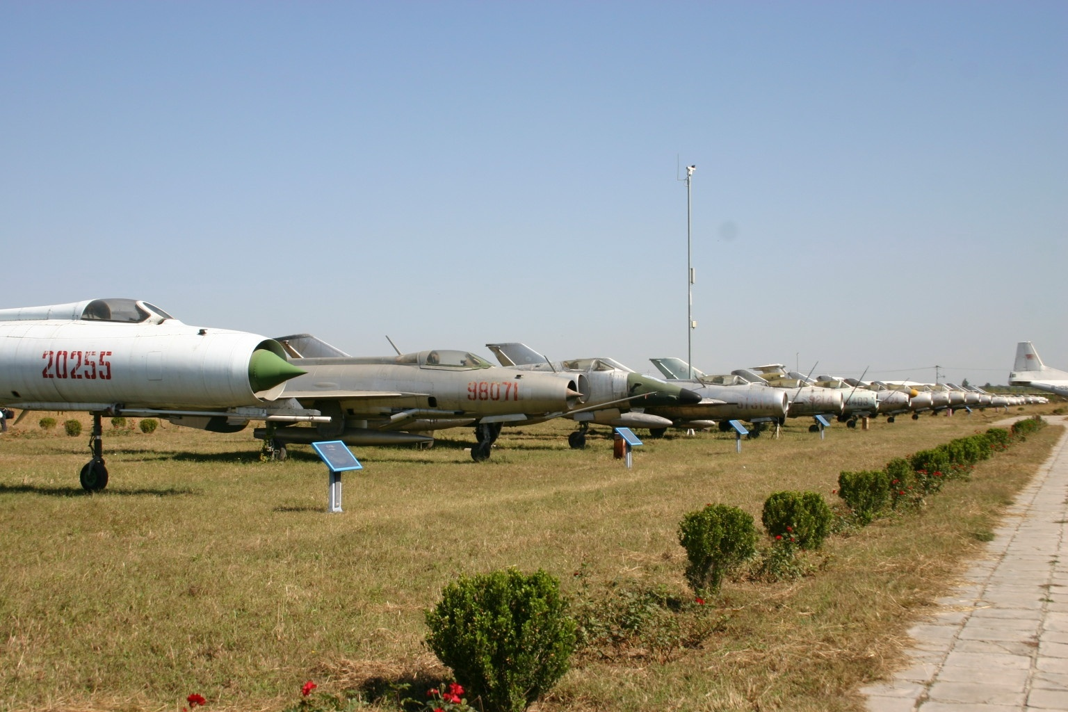 At Beijing Xiaotangshanzhen Aviation Museum